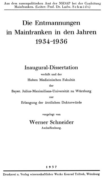 Front page of the doctoral thesis "Compulsory sterilizations in Mainfranken 1934-1936", 1937